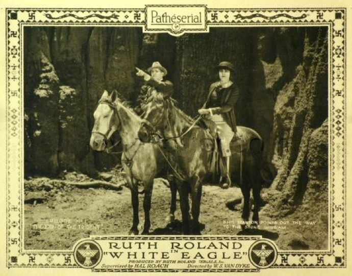 White Eagle is a 1922 Western film serial directed by Fred Jackman and W. S. Van Dyke. This is a lobby card for episode 1.